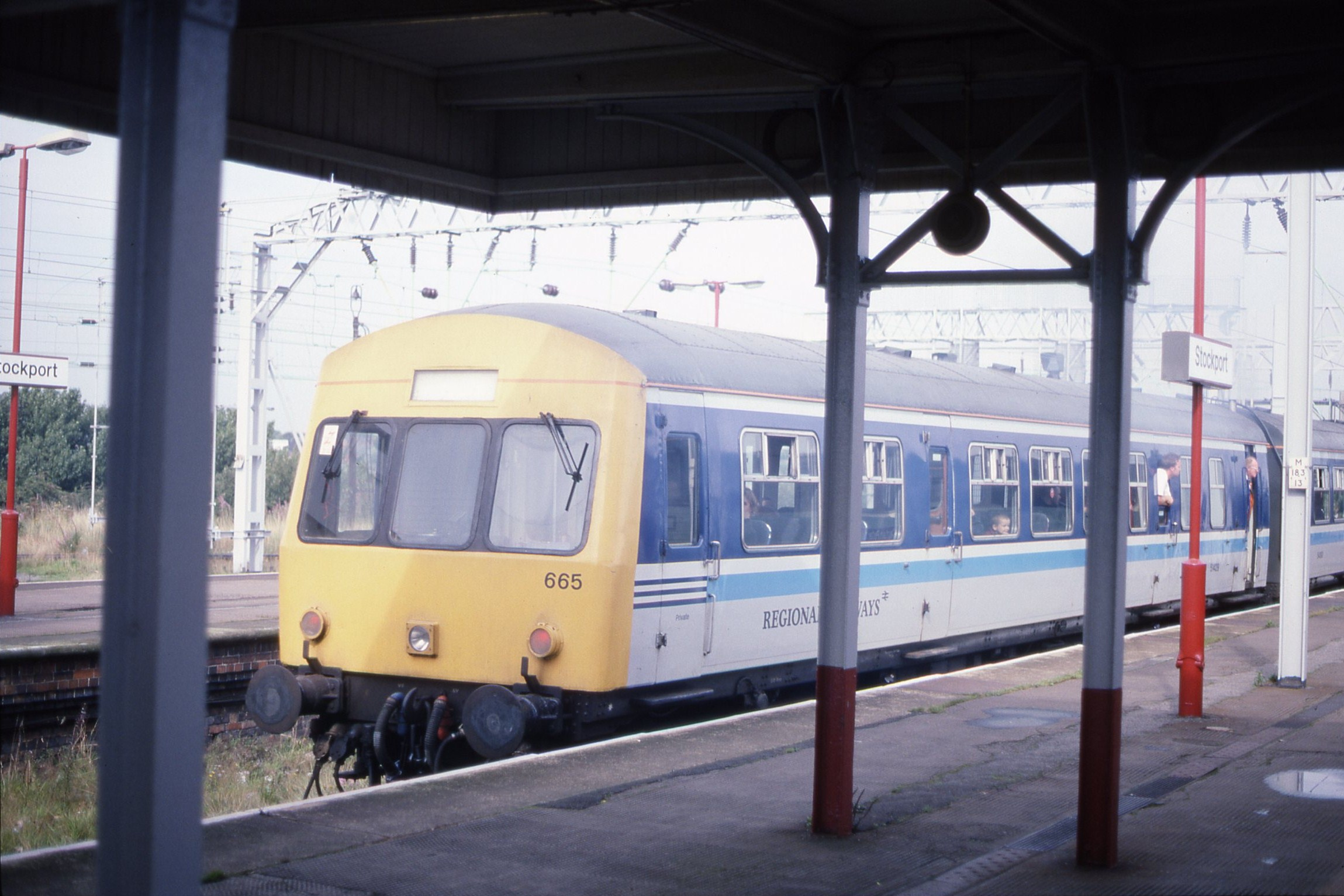 Olympus OM10 camera, scanned from Kodachrome 35mm slide.